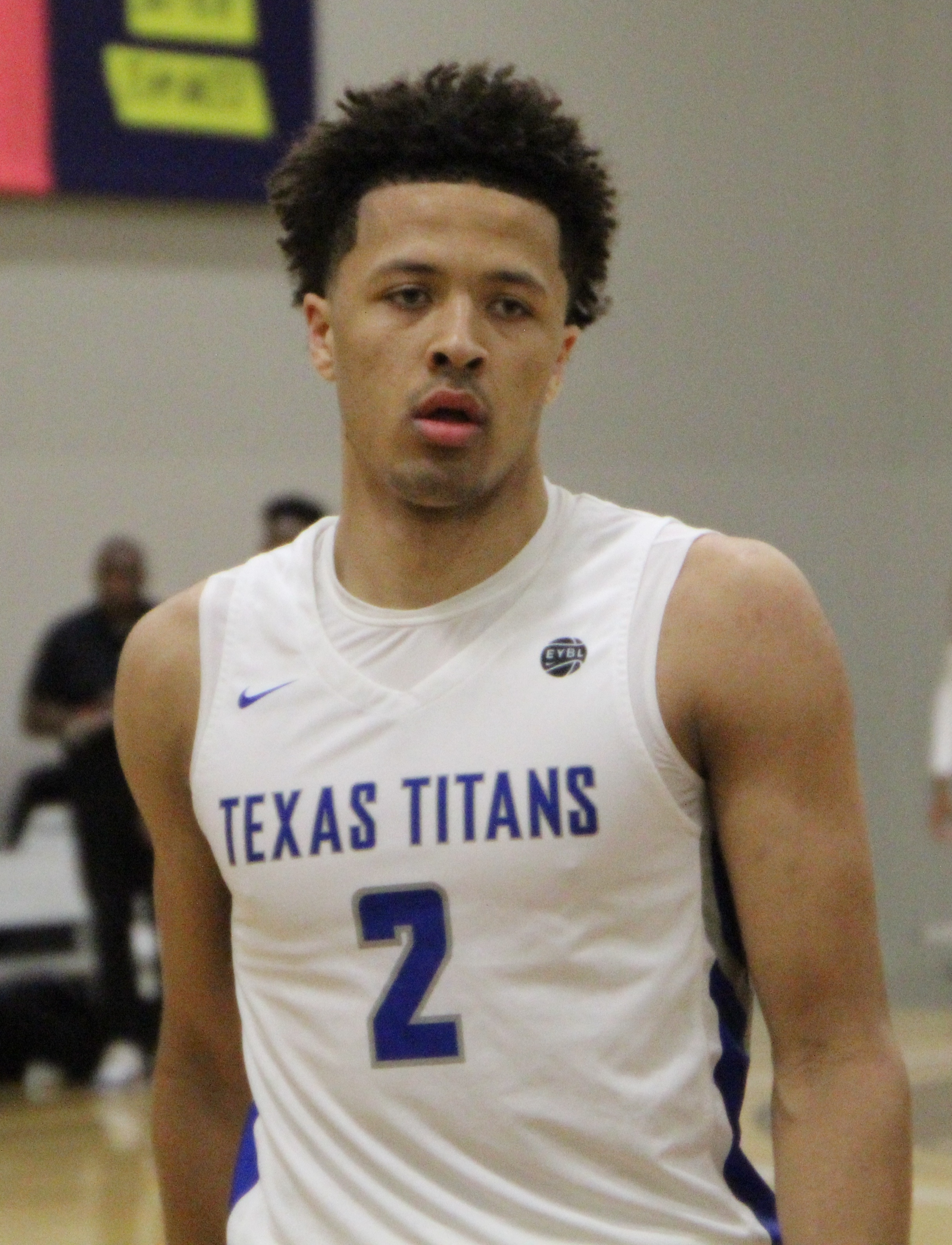 Cade Cunningham plays for Texas Titans at the second session of Nike EYBL in Westfield, Indiana, on May 10. Photo: Colin Hass-Hill For more Ohio State basketball coverage, visit .